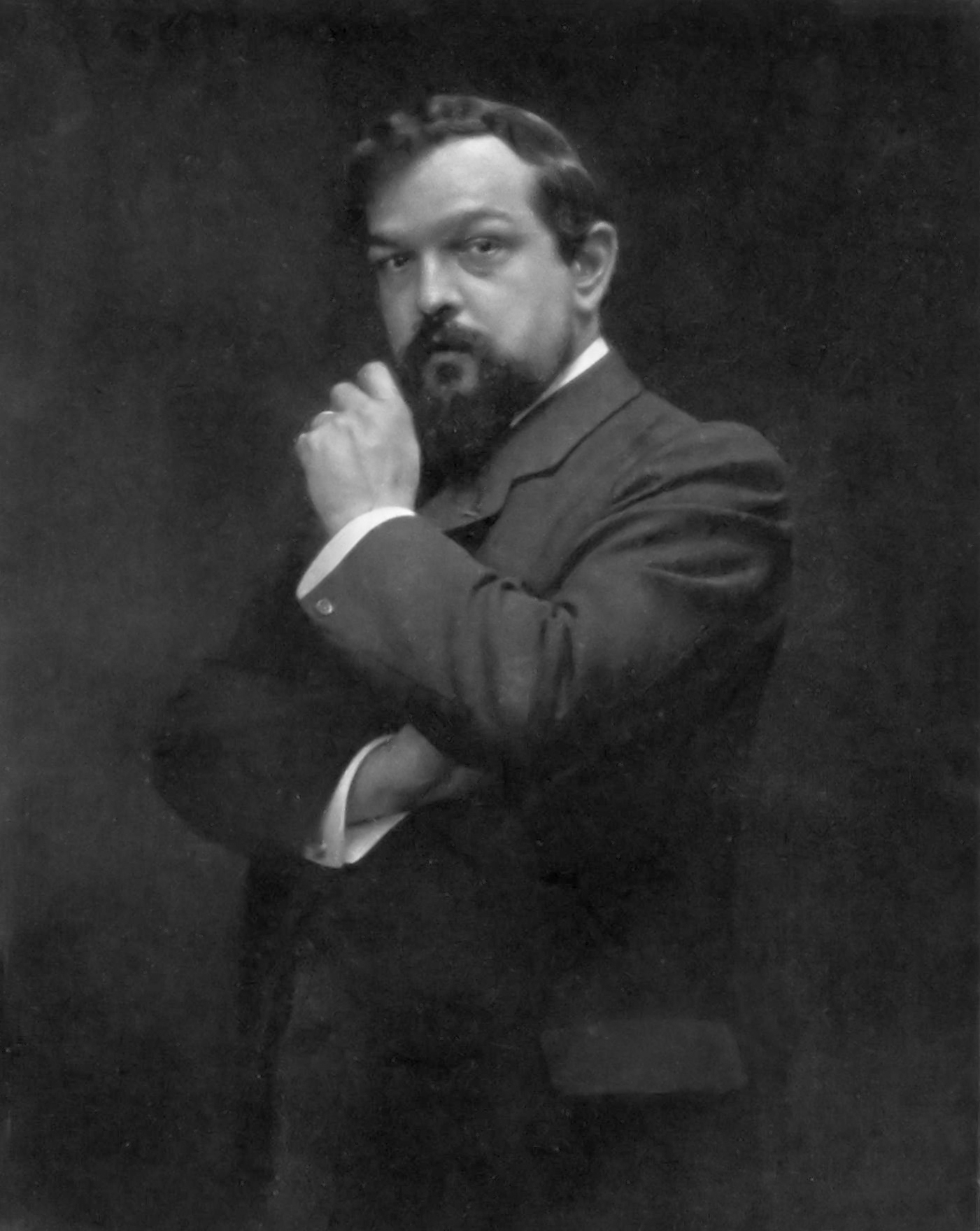 Portrait of composer Claude A. Debussy.